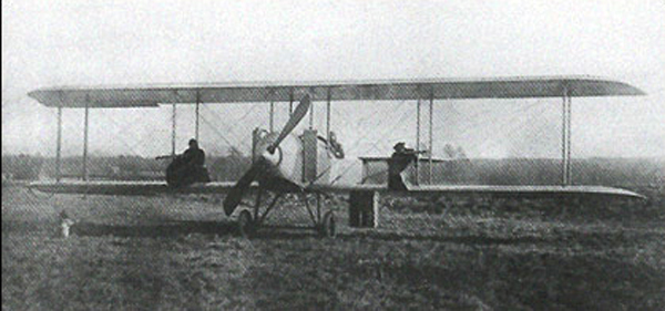 Sturtevant A-3 Battleplane, December 12, 1915 Readville Trotting Park, Hyde Park, Boston